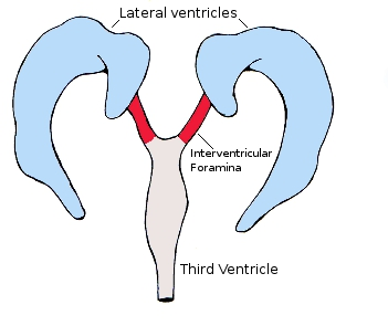 The lateral ventricles of the brain connected to the third ventricle by the interventricular foramina. The fourth ventricle not visualised.